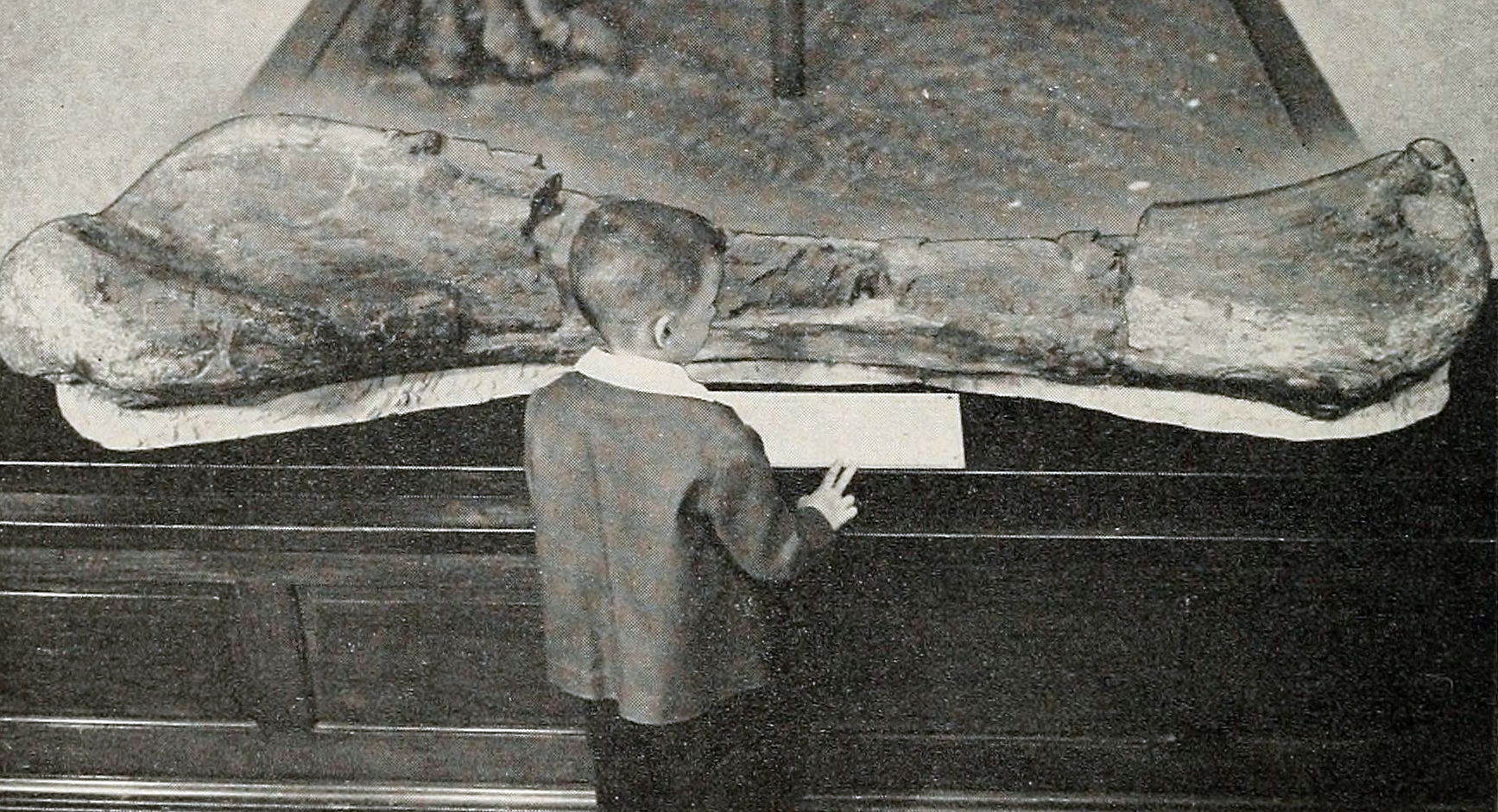 Title: Annual report for the year ended June 30 ... Year: 1951 (1950s) Authors: United States National Museum Subjects: United States National Museum Publisher: (Washington) : Smithsonian Institution Text Appearing Before Image: 52 U-S. NATIONAL MUSEUM ANNUAL REPORT, 195 9 Dr. Harry M. Smith. Of mammalian materials acquired, the skull of the Miocene whale Cetotherium megalophysum, is outstanding. It was collected by Captains Daniel and Edward Harrison of Ewell, Md., and was presented by the Ewell Junior High School. Among the important gifts received in the division of invertebrate paleontology and paleobotany are: 7,345 specimens of carboniferous plants collected by Dr. Harvey Bassler, received from the Maryland Department of Geology, Mines and Water Resources, The Johns Hopkins University; 23 type specimens of Miocene mollusks from the Chesapeake Bay area, from Dr. John Oleksyshyn, Boston University; 144 slides of Recent Foraminifera and Ostracoda from the Antarctic, from Rear Admiral Charles W. Thomas; 63 specimens of Oligomiocene Text Appearing After Image: Humerus of the Jurassic Dinosaur Brachiosaurus. Largest known from this country, it is 6 feet 10 inches long, and was donated by D. E. Jones of Delta, Colorado. ostracods from the Brasso formation of Trinidad, from Dr. W. A. van den Bold; 200 Mesozoic invertebrate fossils from Israel, from Dr. J. Wahrman; and 263 foraminiferal concentrates and well-cuttings form Italian Somalia, from the Sinclair Oil and Gas Company. Through funds provided by the Walcott bec-(uest,438 invertebrate fossils, including over 400 goniatites from Oldahoma, were acquired by the museum. A grant from the National Science Foundation permitted associate curator Porter M.Kier to collect 1,490 echinoids and other invertebrate fossils in Belgium, France, Holland, and Switzerland.